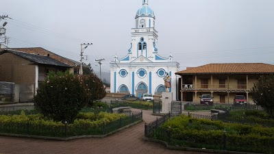 Chiquintad´s main church